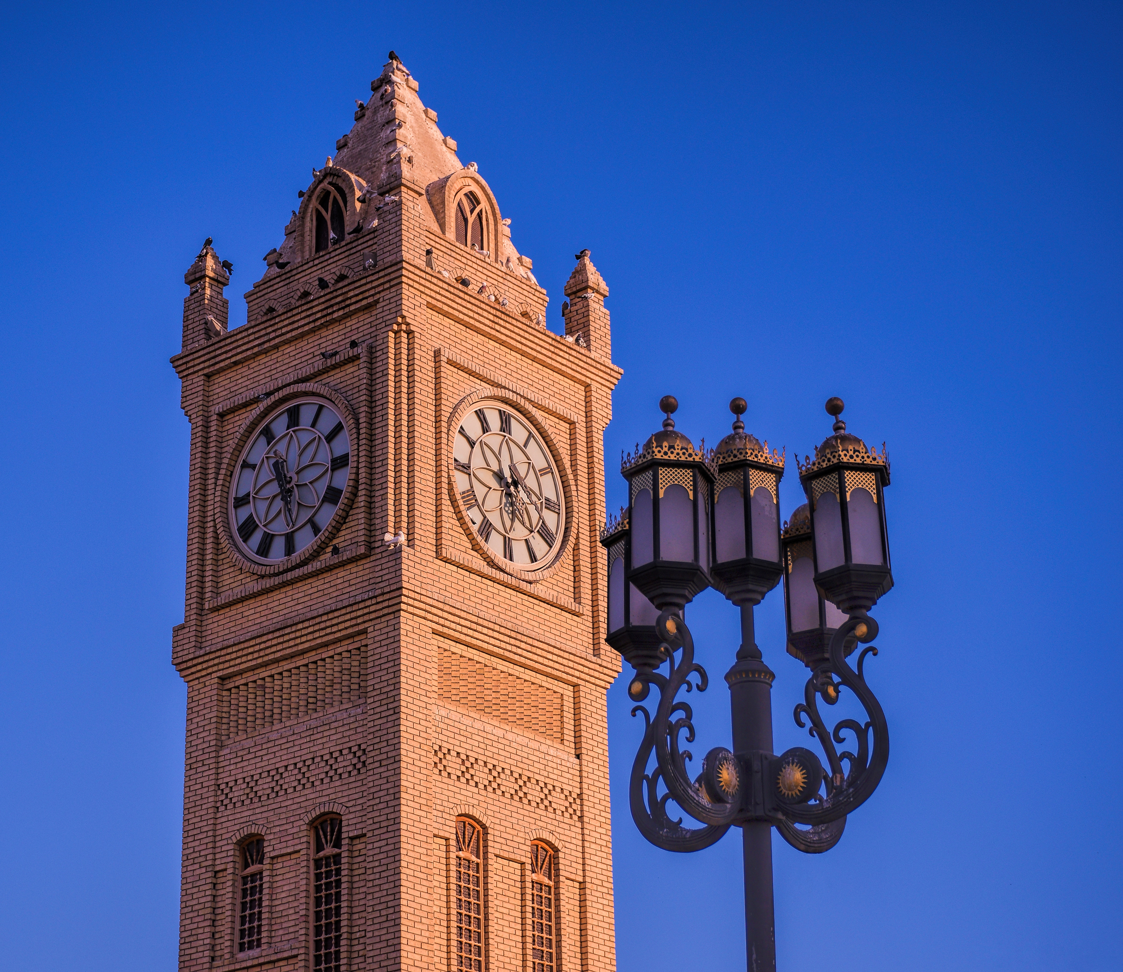 Clock tower and street lights in Arbil, Iraq.